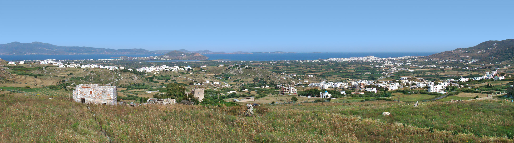 Around Galanado, Naxos, Greece. Panoramic view of the western part of the island. On the left: the town of Glinado, the Kratikos Airport near the seashore, behind it Cape Mougri, and on the horizon the neighbouring island of Paros. On the right: the town of Galanado in the foreground, and the capital Hora in the background.